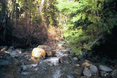 Glade Creek, a tributary of the Little Applegate River in southern Oregon.